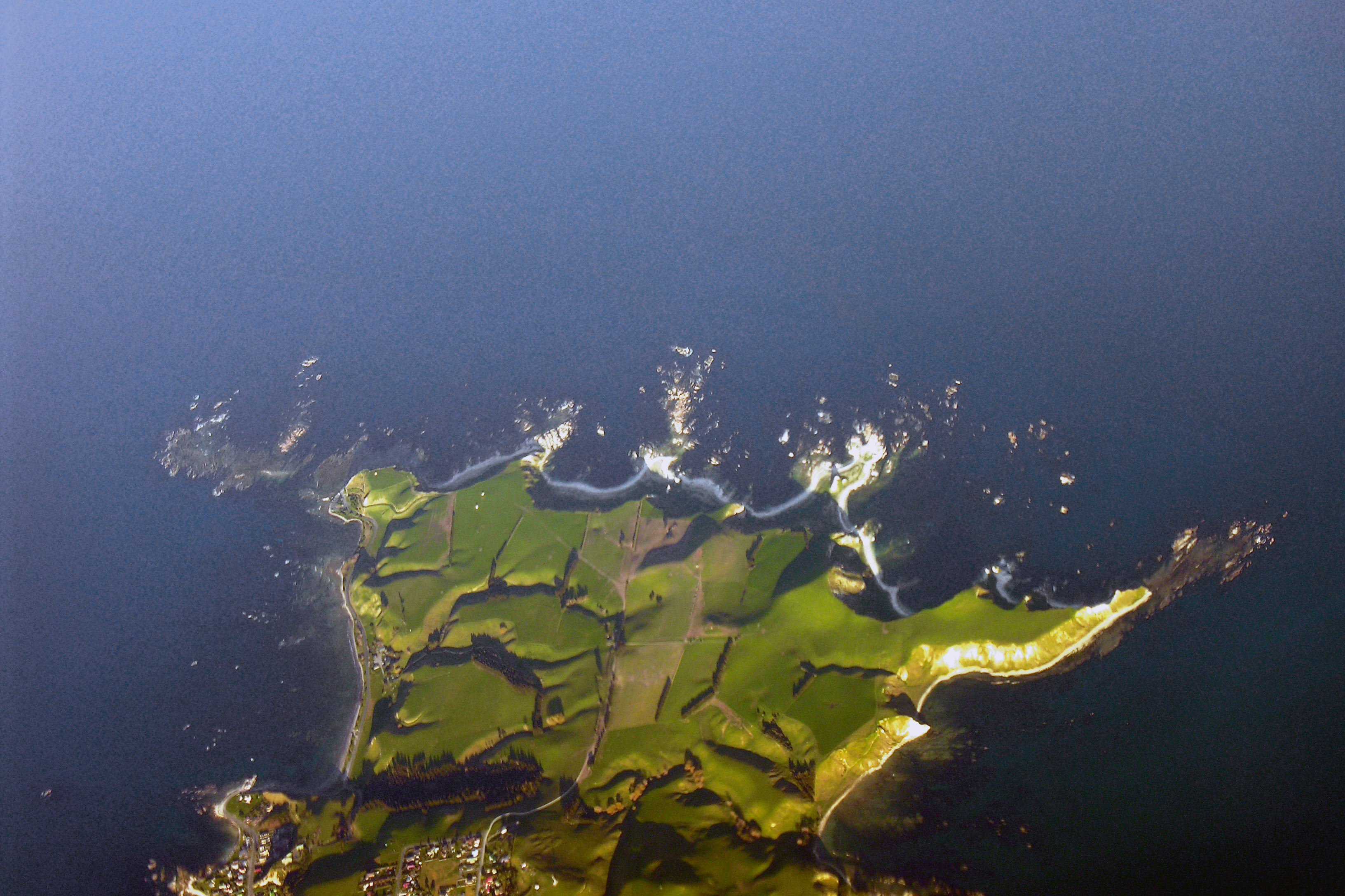 Kaikoura Peninsula. En route Christchurch to Wellington